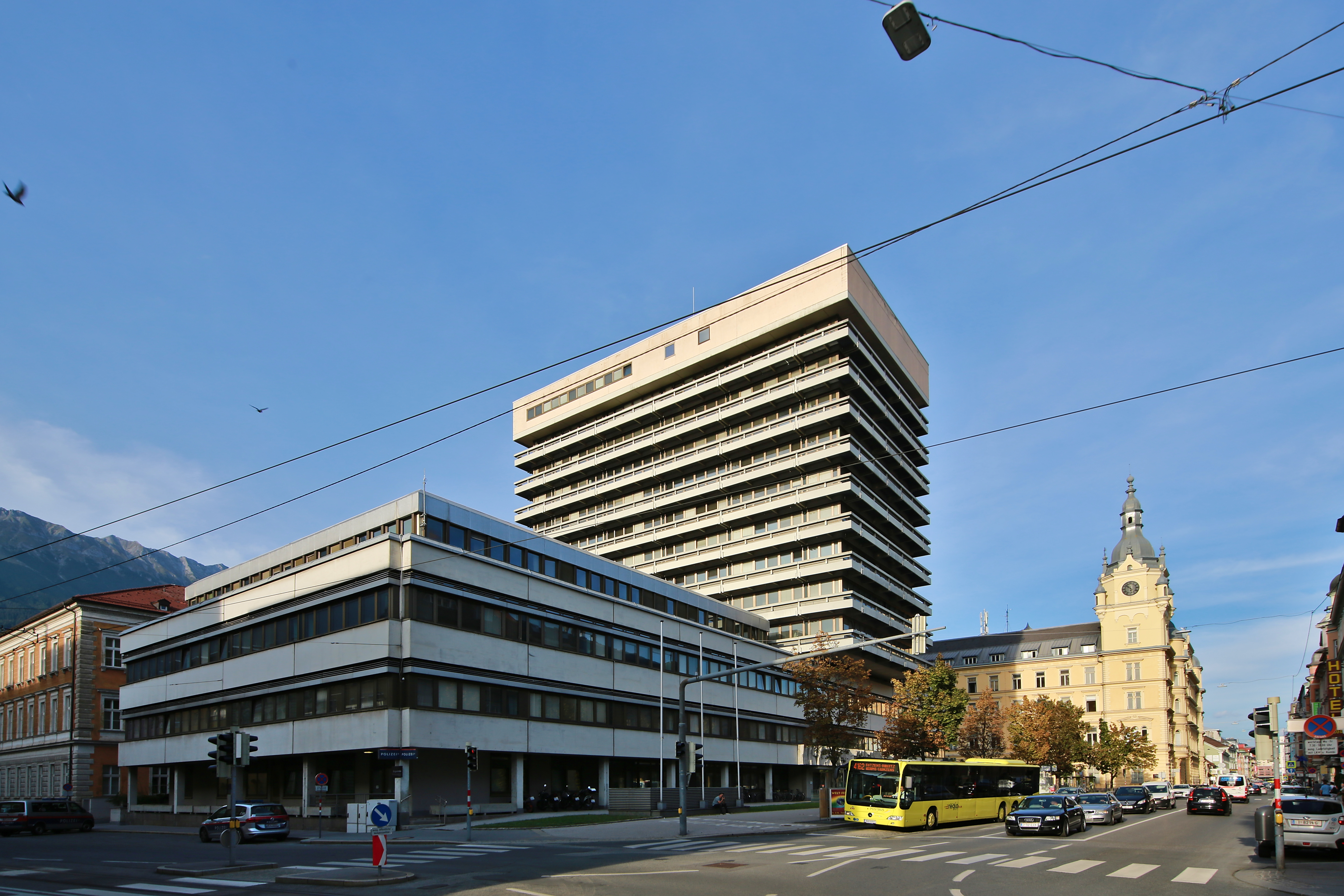 Oberlandesgericht Innsbruck